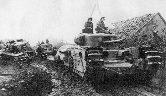 Churchill Mk VII. From the shape of the projector in the hull and the presence of a Trailer behind, this is a Churchill Crocodile.